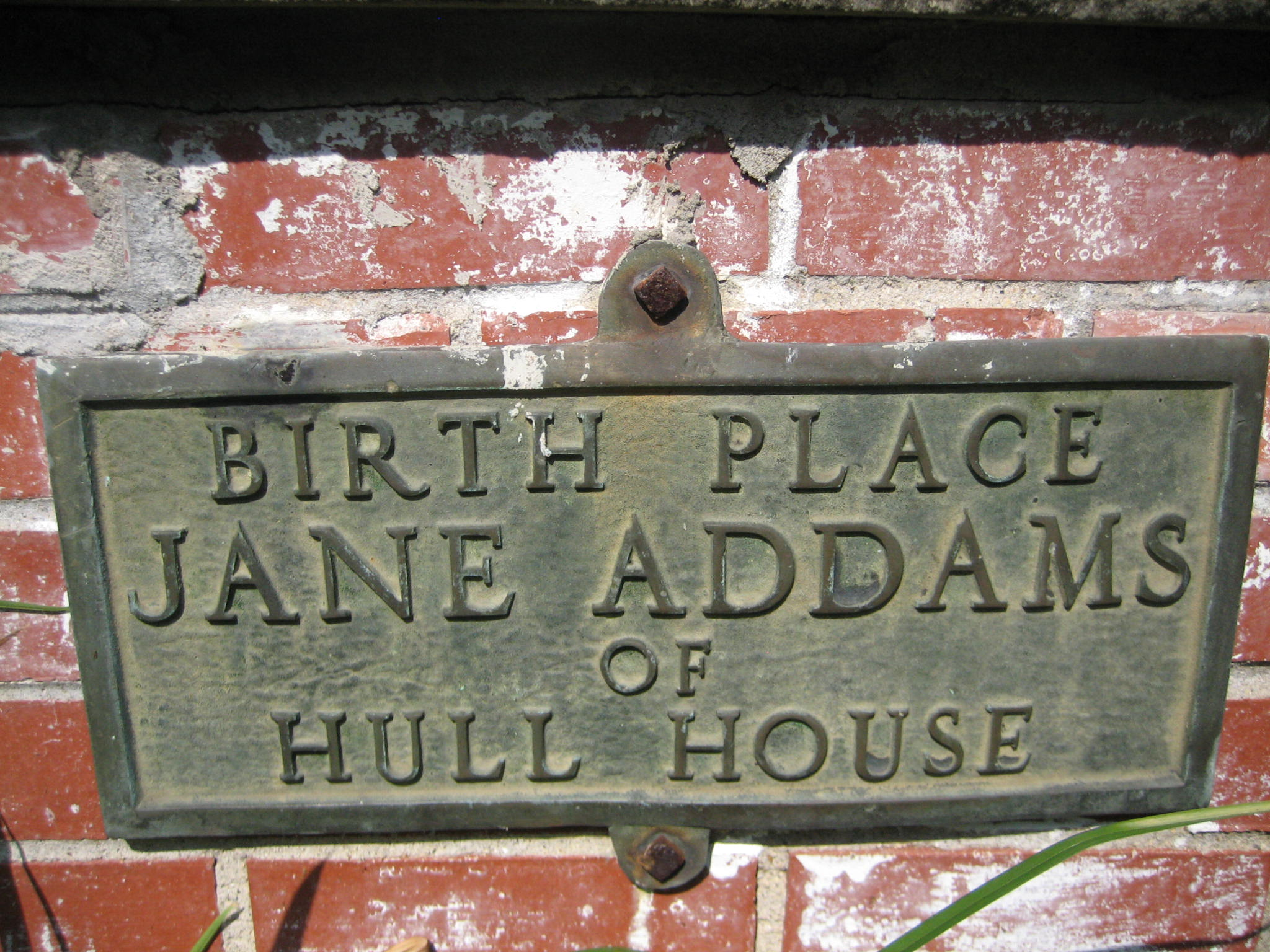 John H. Addams Homestead, Birthplace of Jane Addams (of Hull House fame), Cedarville, Illinois, USA. U.S. National Register of Historic Places